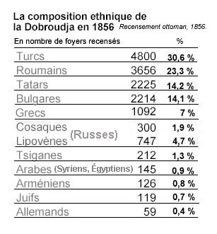 Dobruja's ottoman statistics 1856